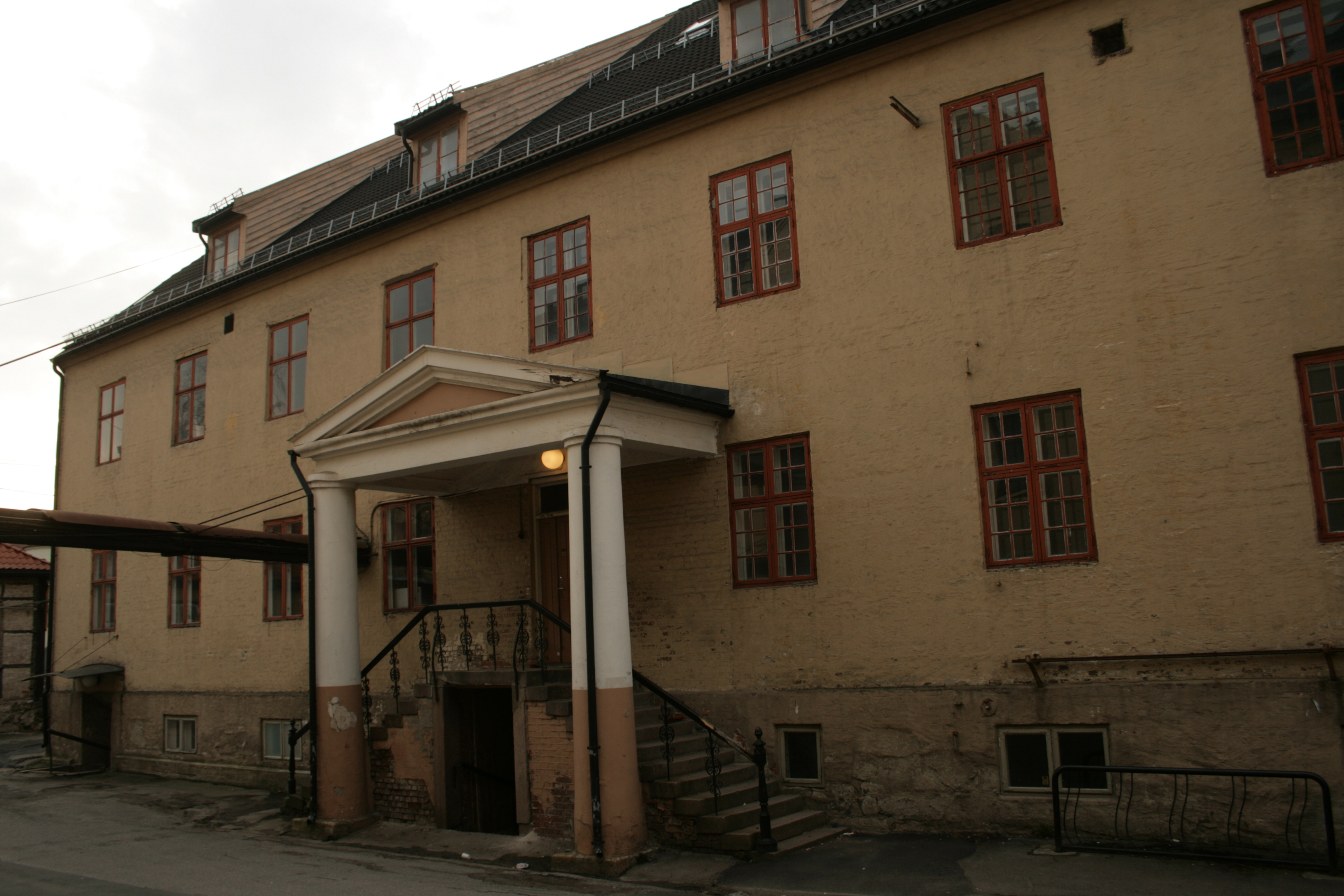 Part of Prinds Christian Augusts Minde, an institution for the poor in Oslo, Norway – The factory. The institution built 1831–67; architect Chr. H. Grosch.